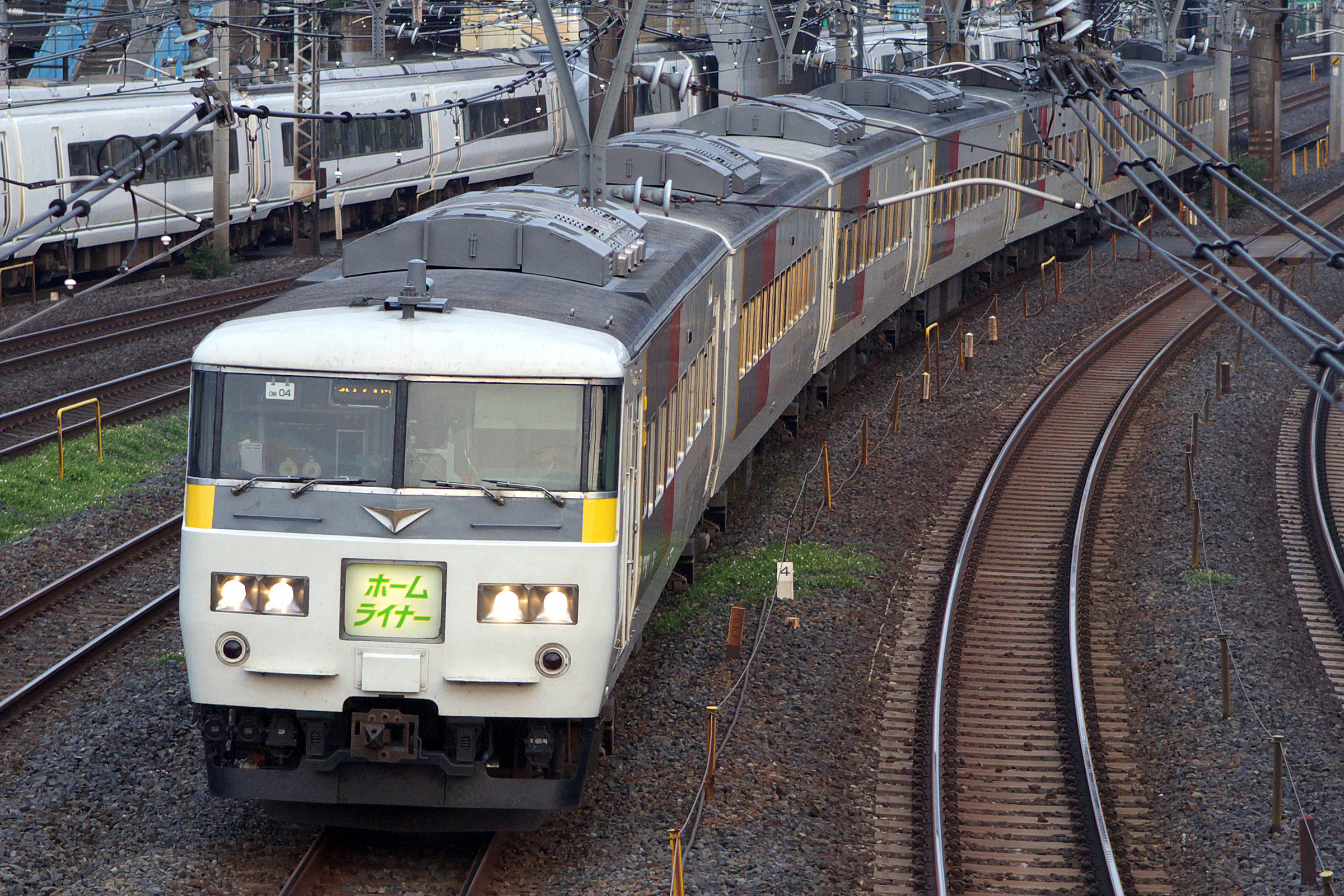 JR East 185 series EMU "Home Liner Konosu".